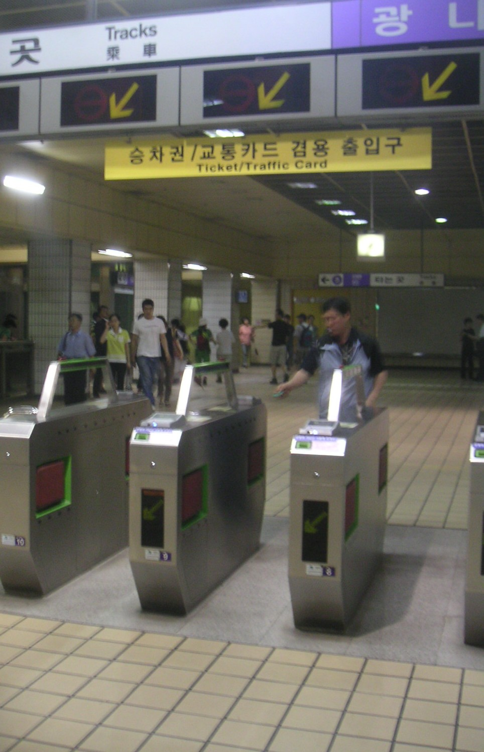 Ticket gates on Gwangnaru station on Seoul Metro Line 5